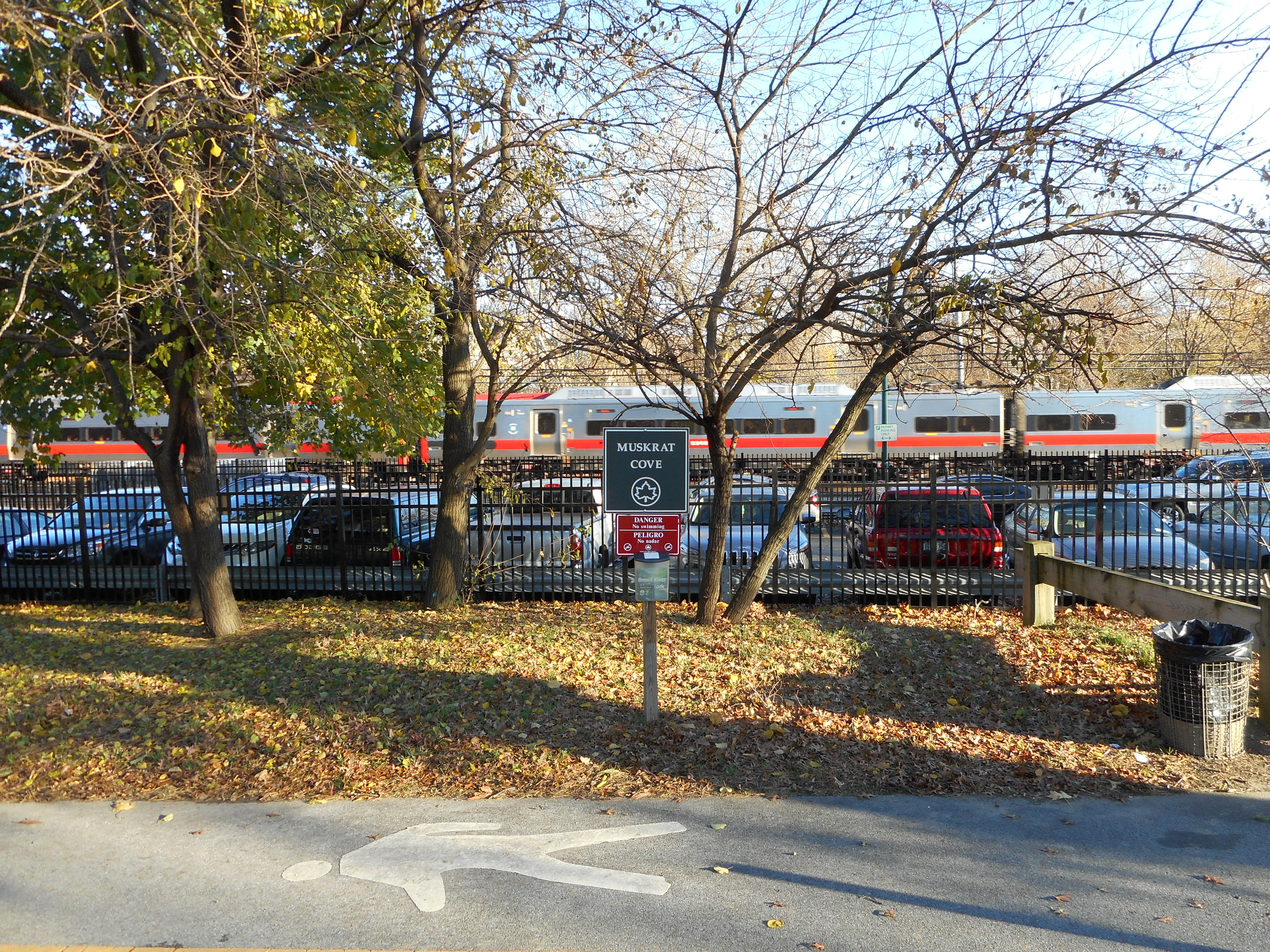 Muskrat Cove, a local park between the Woodlawn (Metro-North station) and the southbound off-ramp from the Bronx River Parkway to East 233rd Street. Across the tracks is a New Haven-bound M8 passing through the station.